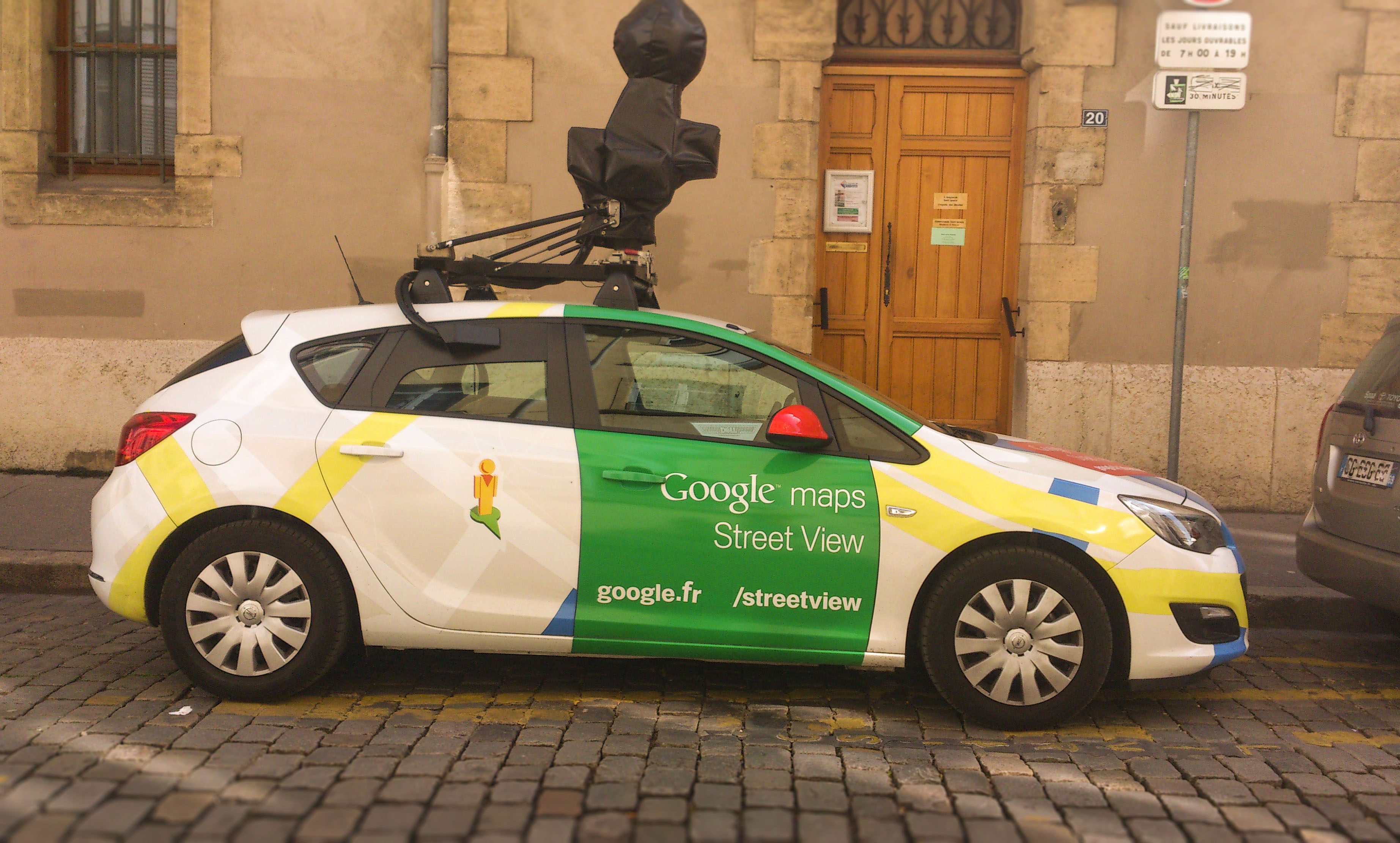 google street car in Lyon-France